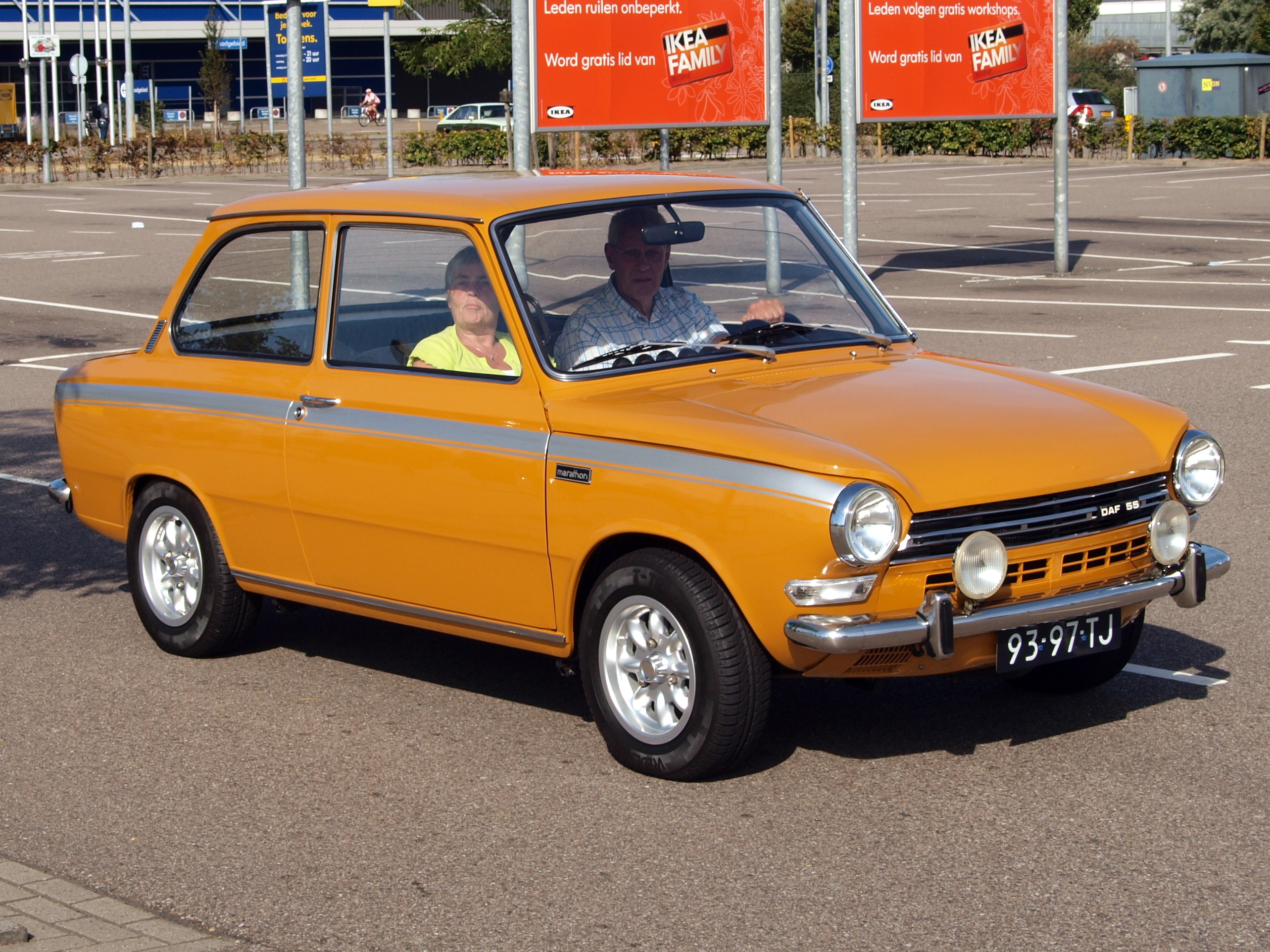 DAF 55 M 93-97-TJ